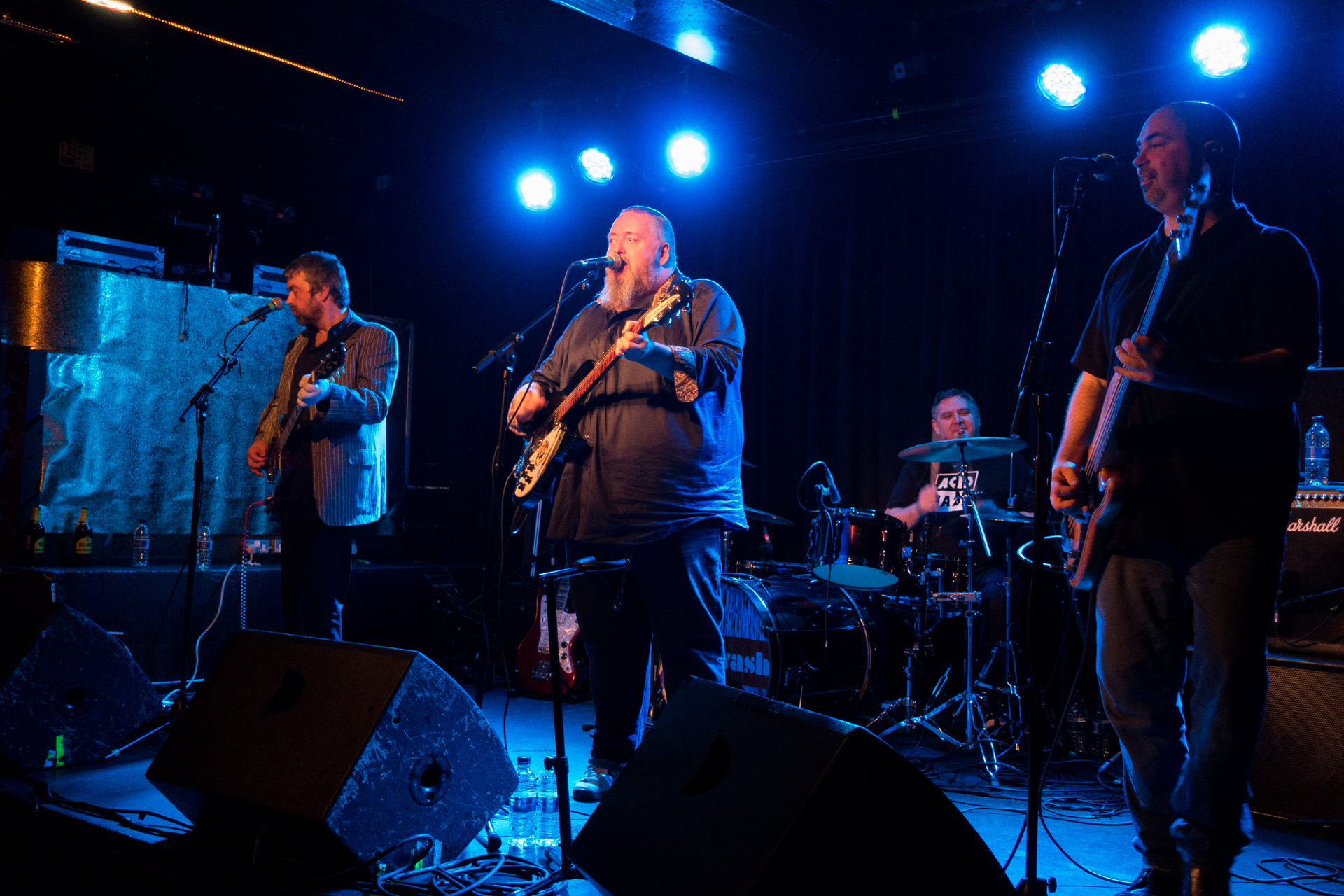 Pugwash playing in 2014